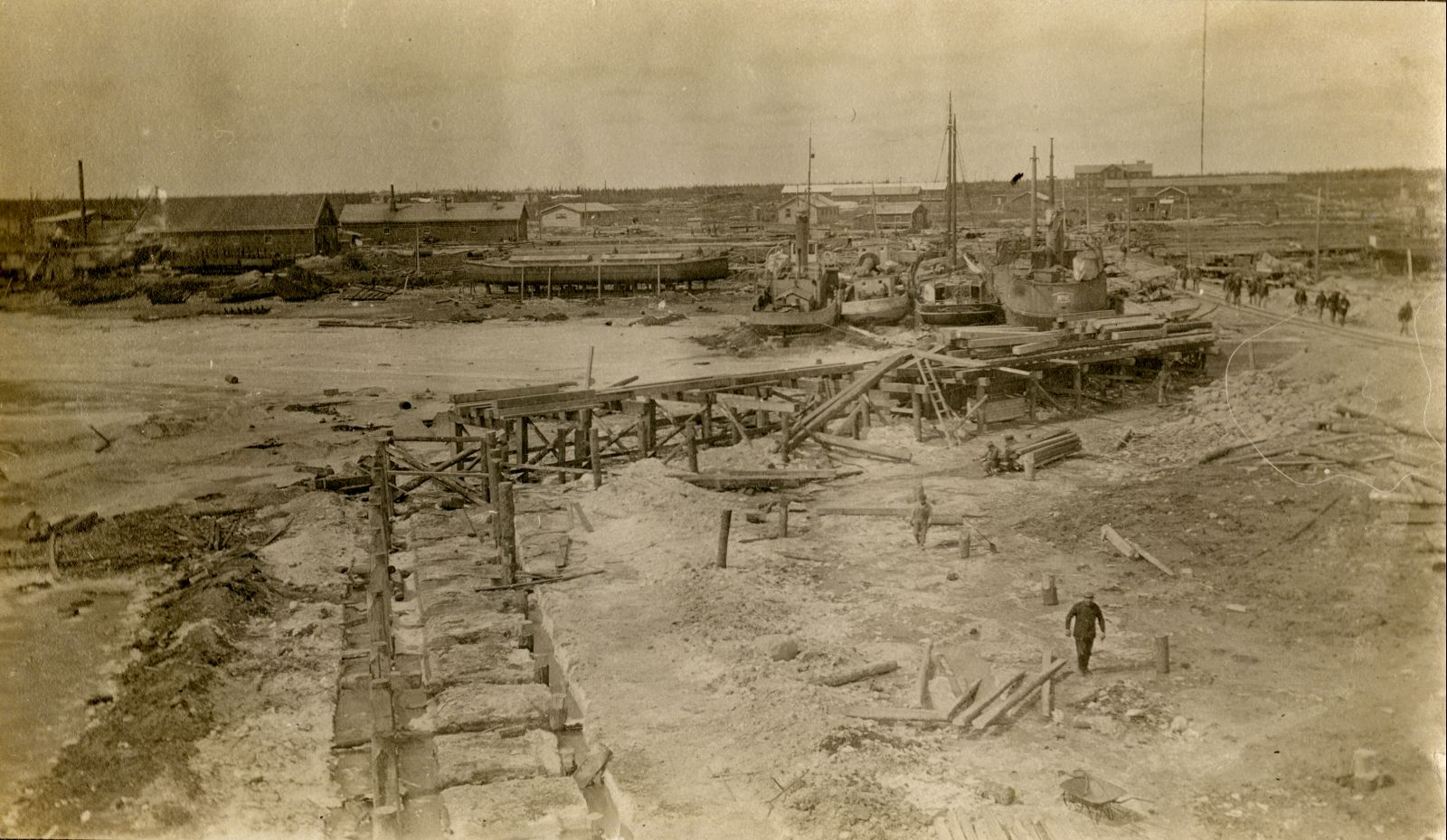 The shipyard at Port Nelson in Manitoba, Canada.